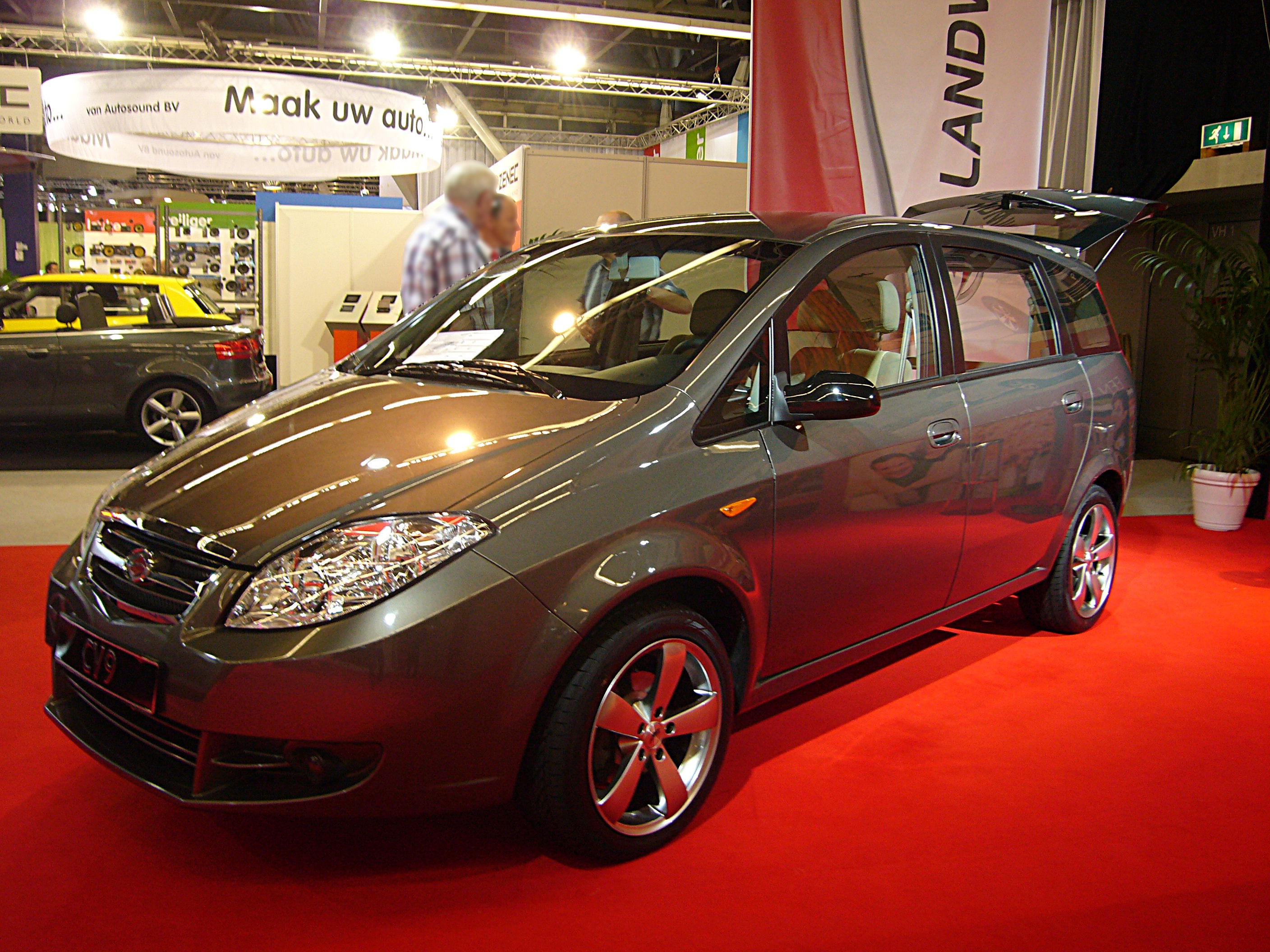 Landwind CV9 (Fengshang/Fashion in China) at AutoRAI Amsterdam 2011